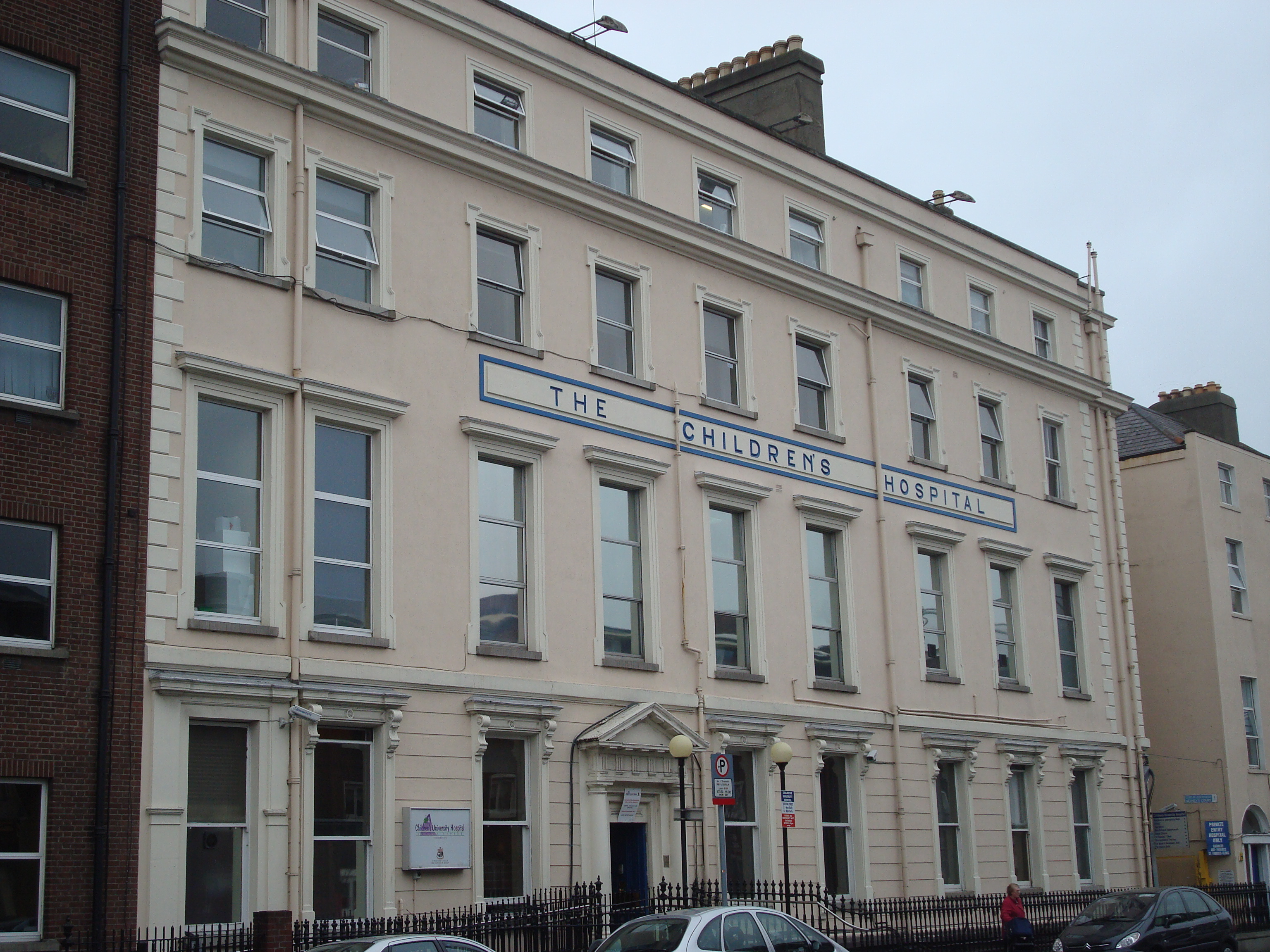 Temple Street Childrens Hospital, Temple Street, Dublin, Ireland